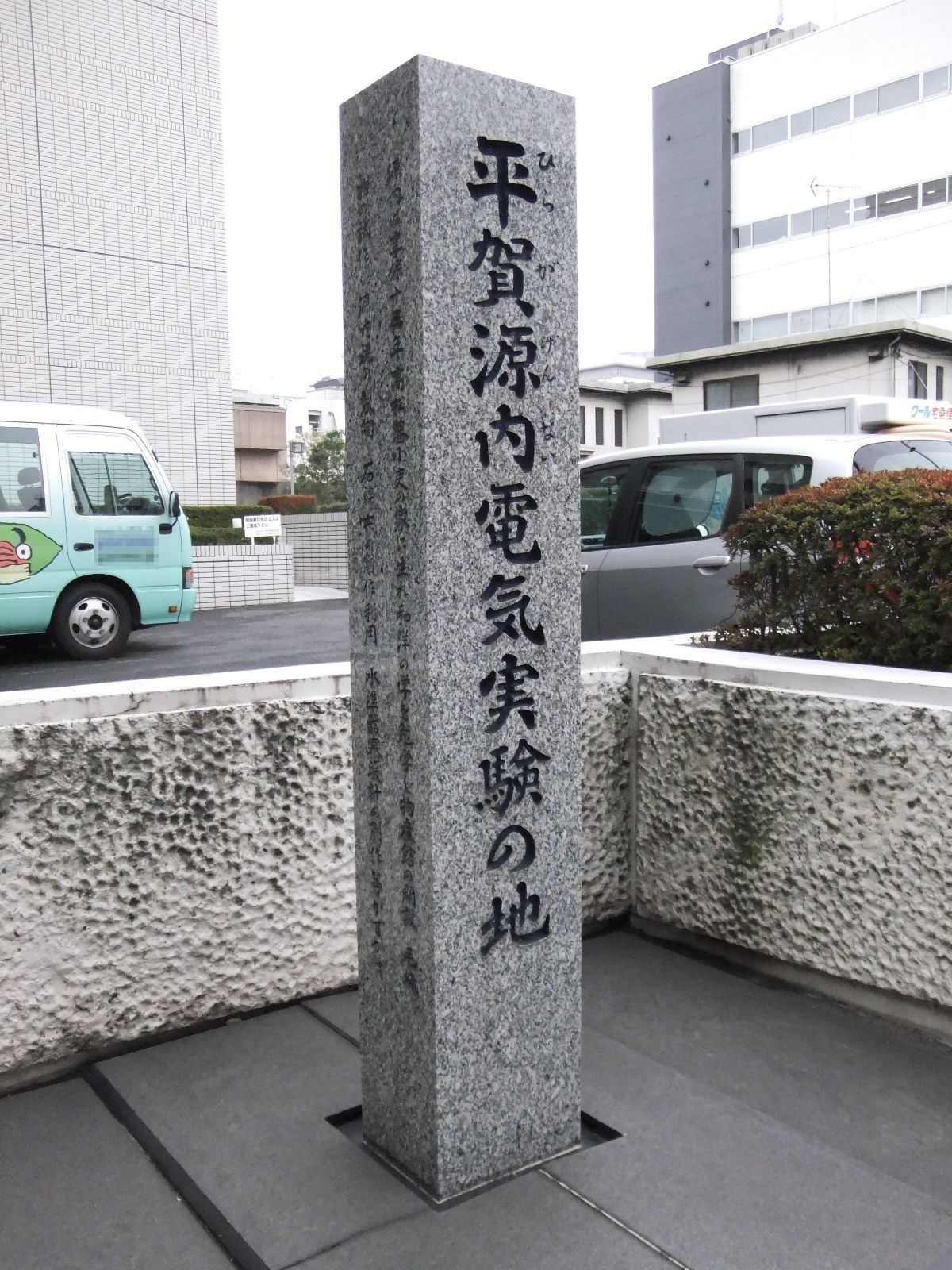 Site of Hiraga Gennai's Electrical experiment at Fukagawa, Edo (Tokyo).